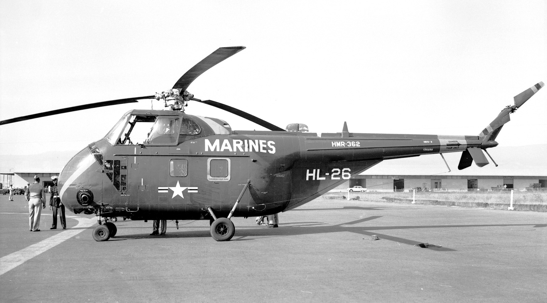 From Squadron HMR-362. At San Francisco in July 1955.